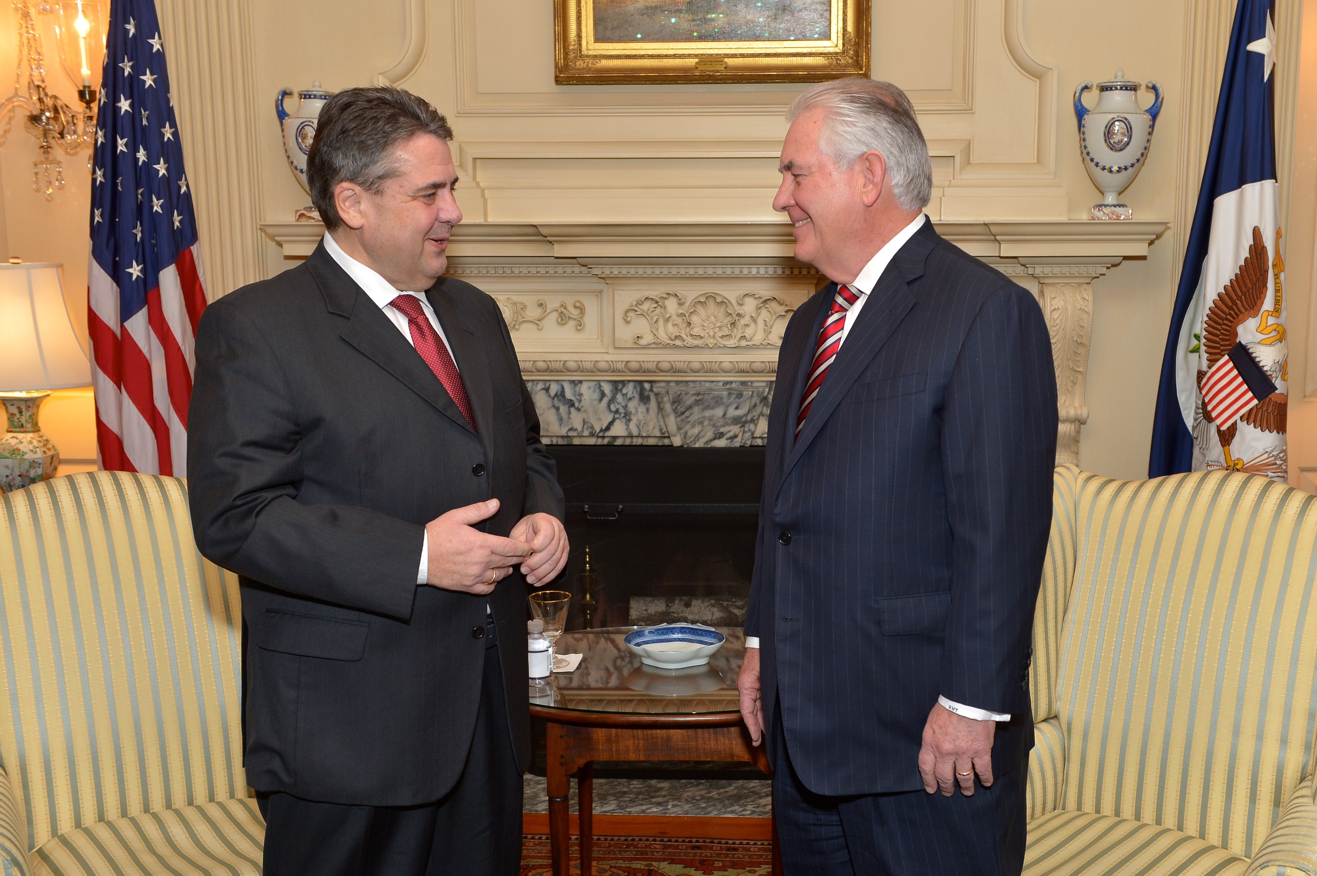 U.S. Secretary of State Rex Tillerson and German Foreign Minister Sigmar Gabriel share a laugh before their bilateral meeting at the U.S. Department of State in Washington, D.C., on February 2, 2017. [State Department photo/ Public Domain]